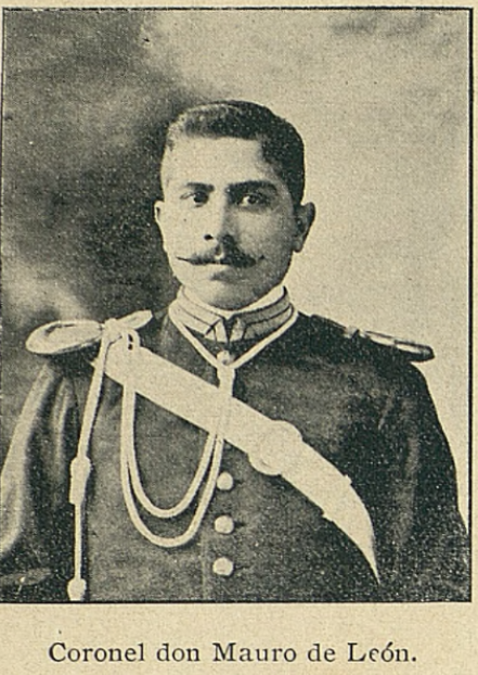 Coronel Mauro de León en 1908.